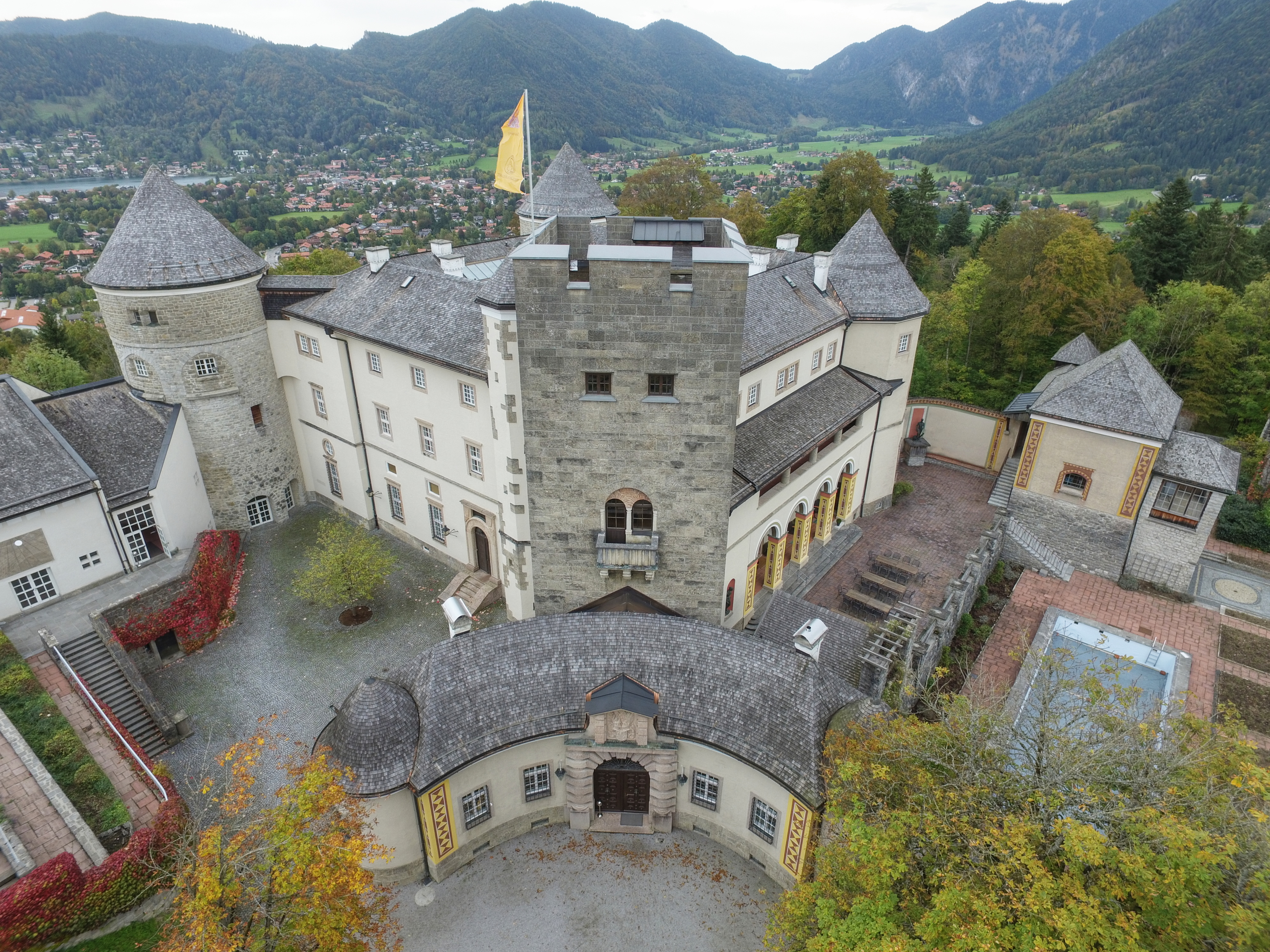 Schloss Ringberg (Ringberg Castle) aerial view of main building and main door.